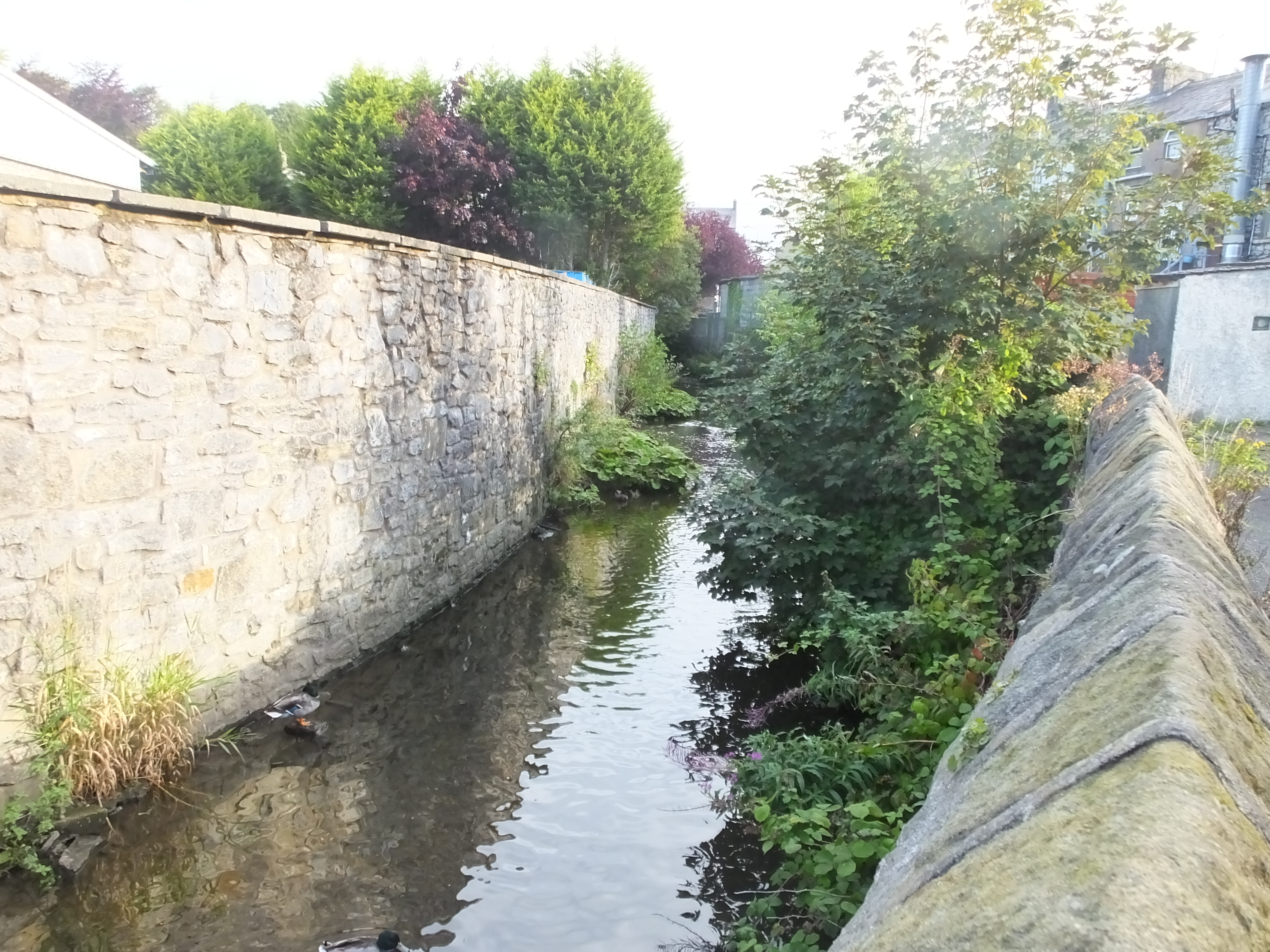 Wikimedia editathon at Clitheroe Castle Museum. Mearley Brook